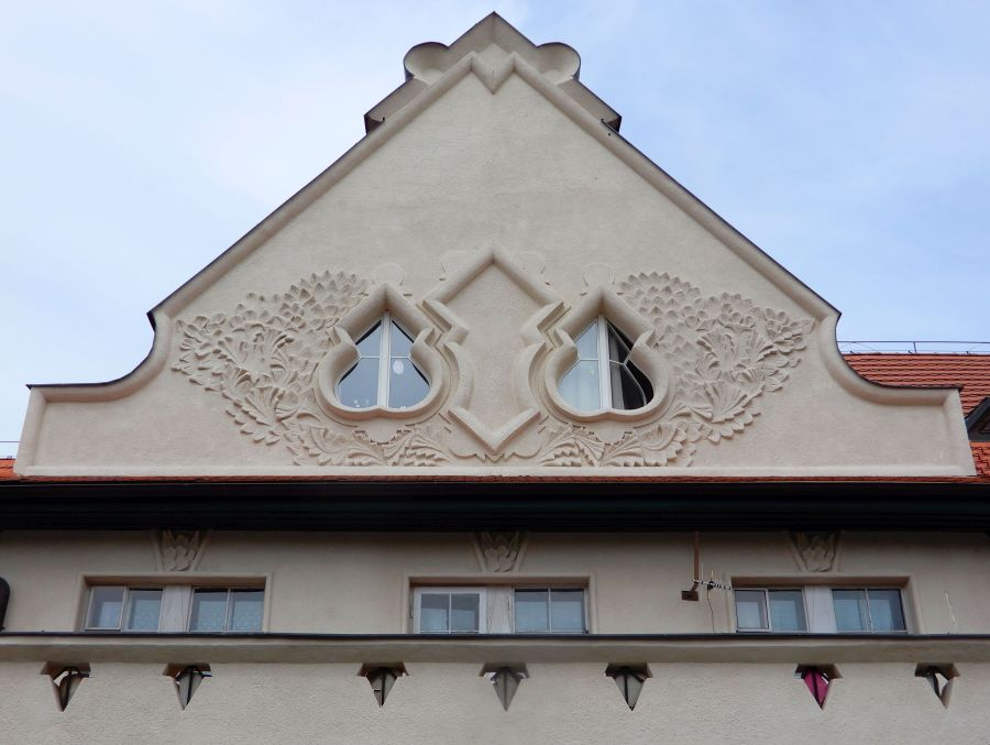 Double House Ořechovka Num.250, street Na Ořechovce; arch. Jaroslav Vondrák; shield